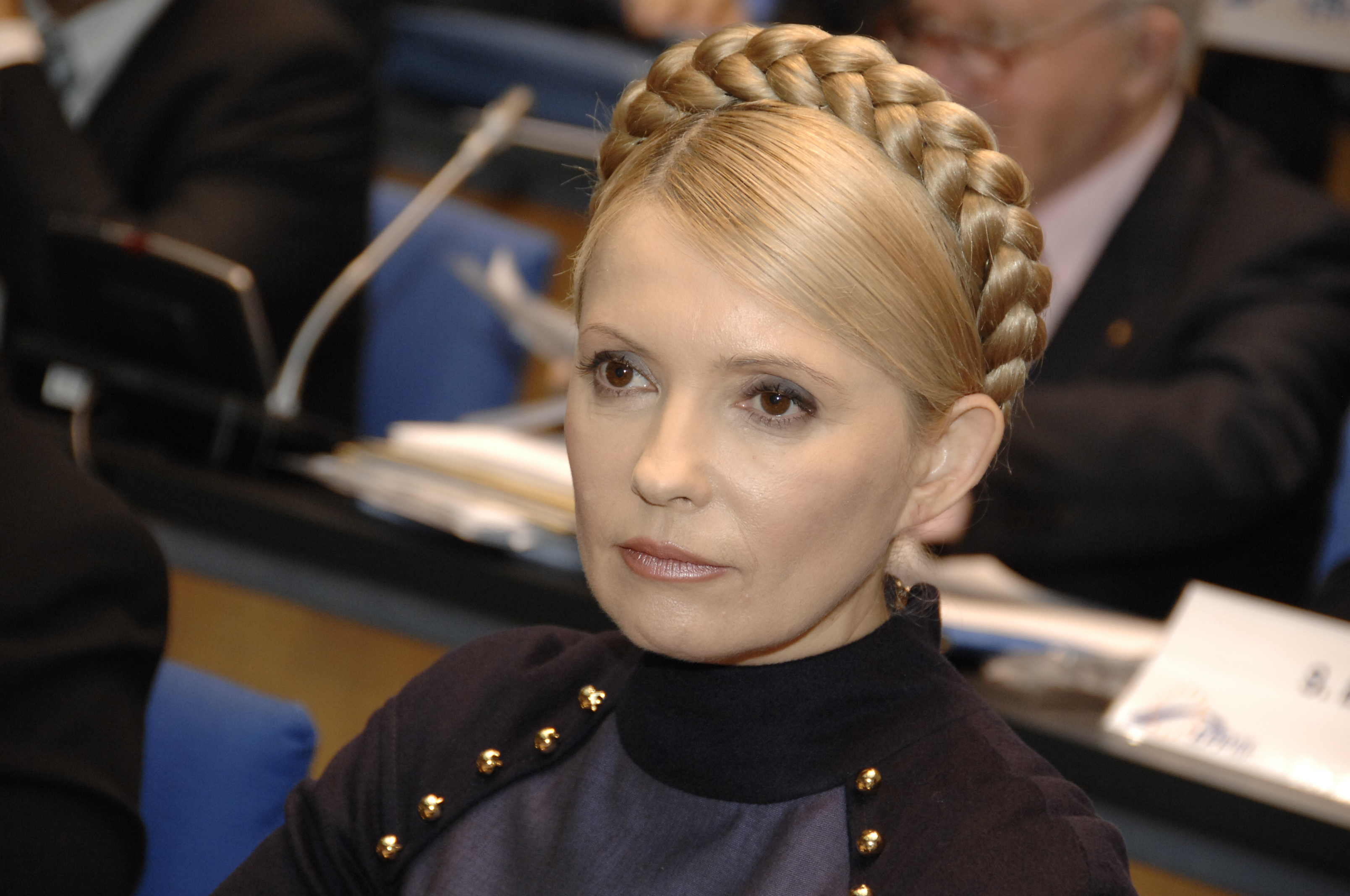 EPP Congress Bonn